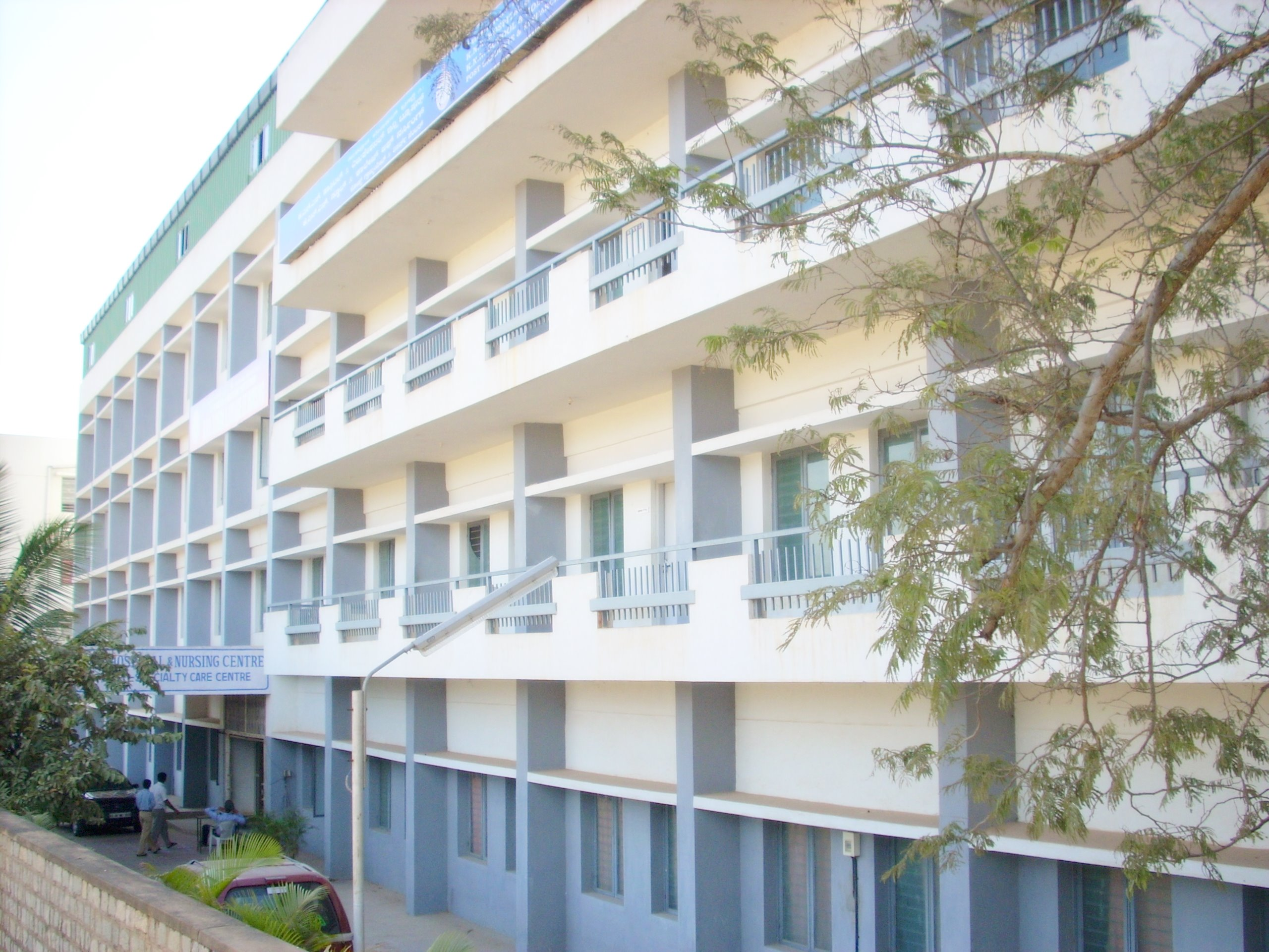 This is a photo of the front portion of the building that houses KNN College of Nursing located at Yelahanka Bangalore India